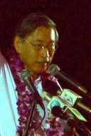 Chiam See Tong at the Singapore Democratic Alliance (SDA) rally at Choa Chu Kang Park, Singapore, on Tuesday, 2 May 2006, during the hustings for the 2006 general election. On election day, Chiam polled 55.84% of the votes to retain his seat at Potong Pasir for the sixth consecutive time since 1984.